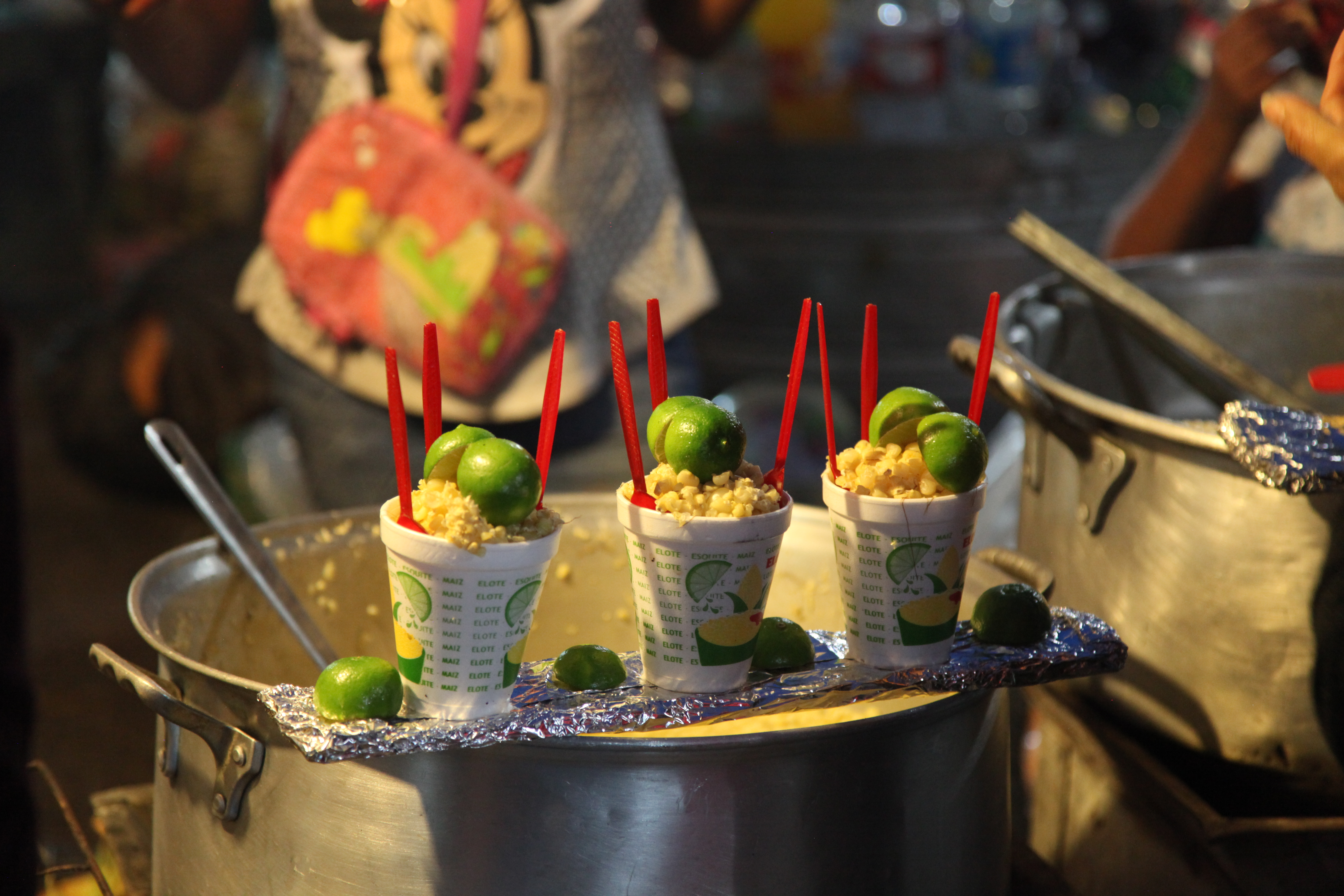 After the failed trip to the Anthropology museum